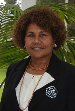 The high commissioner of the Solomon Islands to New Zealand, Joy Kere, after presenting her credentials at Government House, Wellington, on 1 May 2014